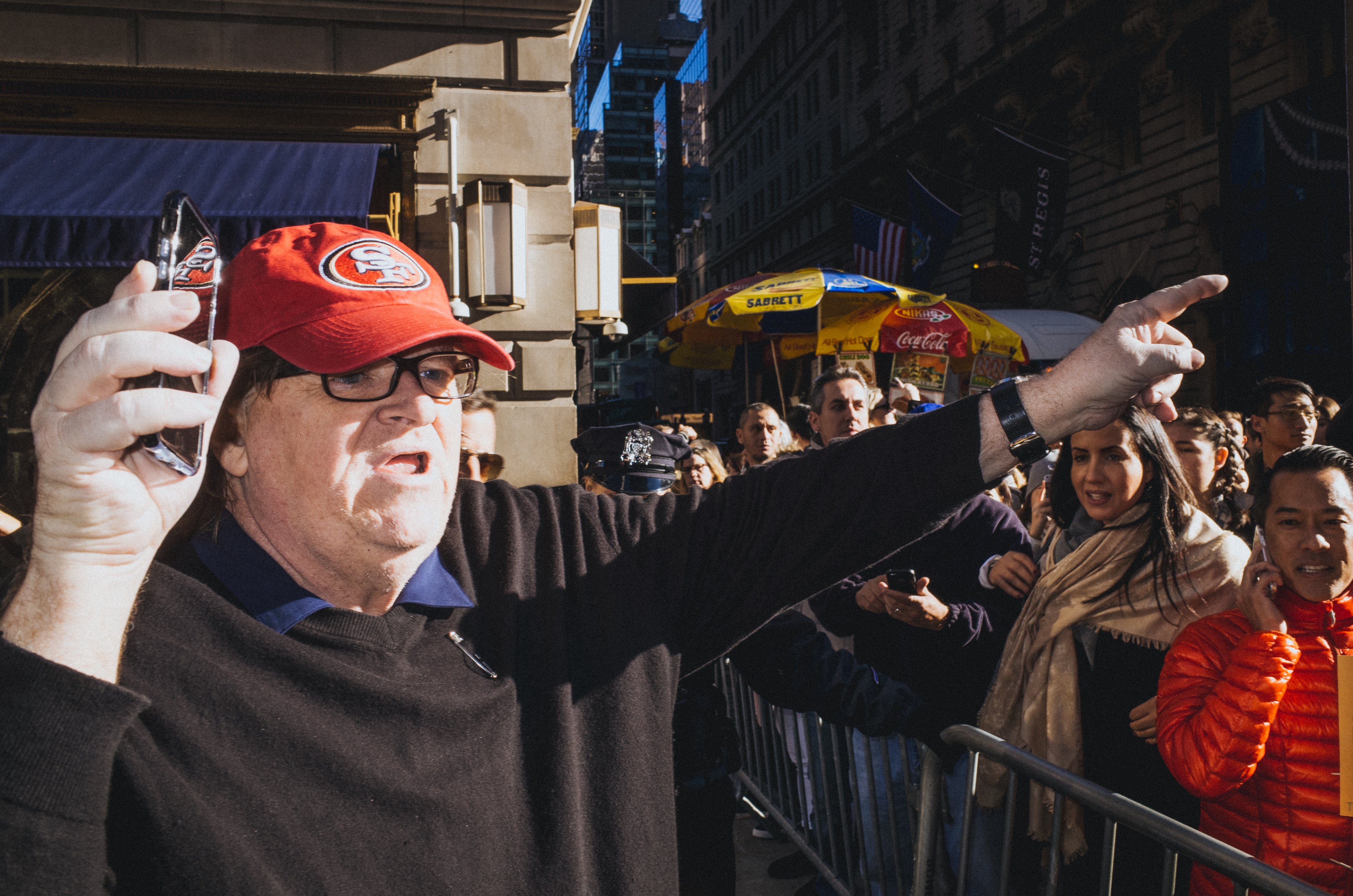 New York City, 11/12/2016